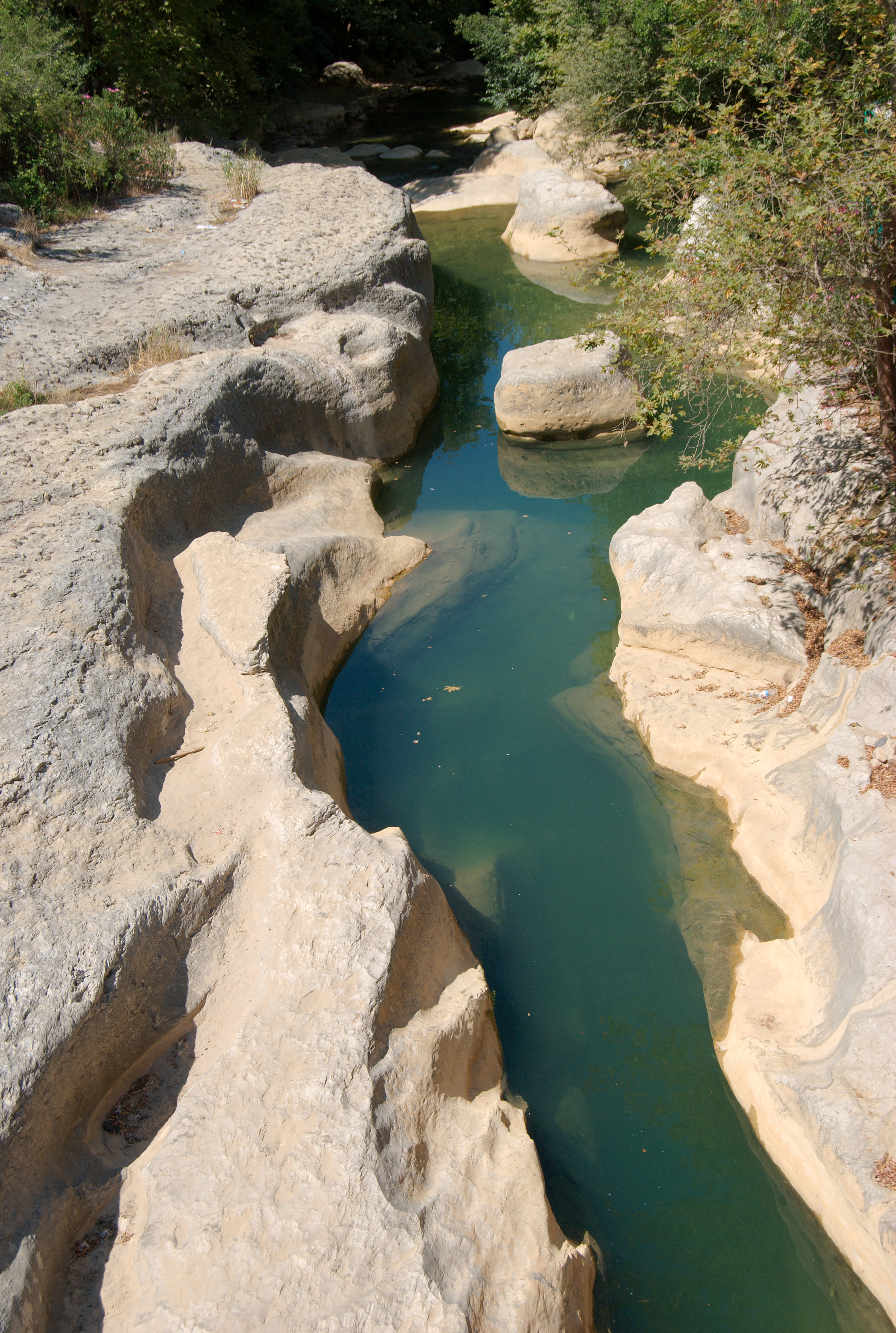 Nahr Damour (river Damour) at the bottom of the Chouf Valley, as it flows through Jisr el Qadi, Lebanon